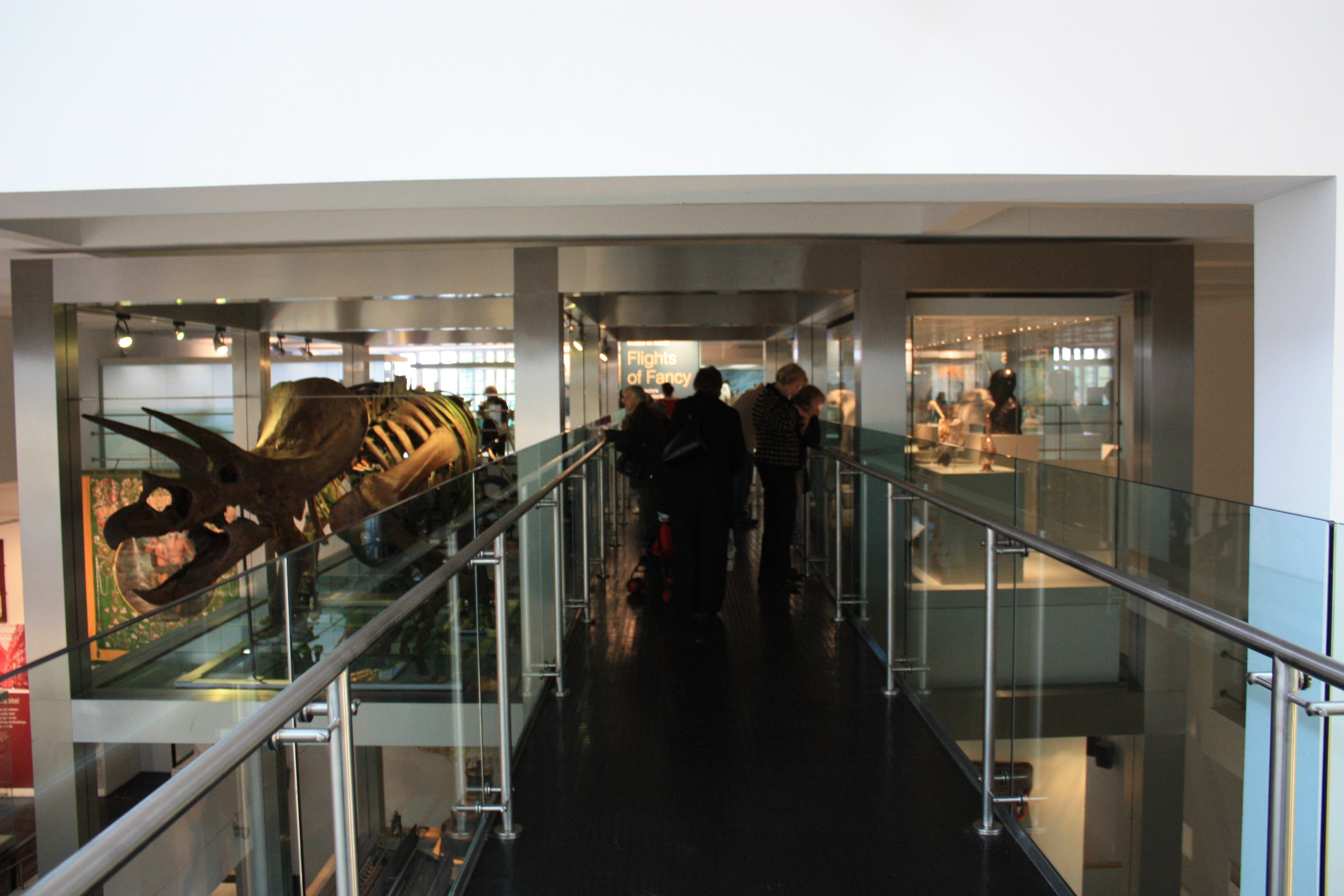 Ulster Museum, Belfast, Northern Ireland - Re-opening Day, 22 October 2009